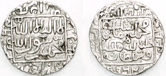 Old coin of Arakan, today Rakhine, Myanmar. Minted by Shams al-din Muhammad Ghazi, sultan of Bengal. Dated AH962 (= 1554/5 AD). Obverse: kalima within square. Reverse: (above and right:) Shams al-Dunya wa al-Din abu al-Muzaffar (within square:) Muhammad Shah Ghazi khalled Allah mulkahu wa sultanat (below:) sanah 962 (left:) zarb Arakan (with low "a"). More or less similar to this coin.